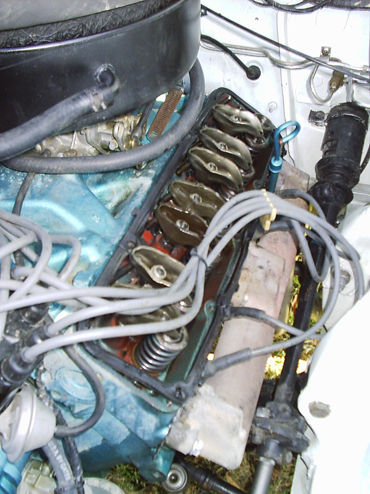 Detail of the valve train (valve cover has been removed) of an American Motors (AMC) 390 cubic inch displacement (6.4 L) V8 engine producing 315 hp (235 kW). Standard equipment in the 1969 SC/Rambler, two-door hardtop - a compact muscle car produced by American Motors Corporation in collaboration with Hurst Performance Inc.